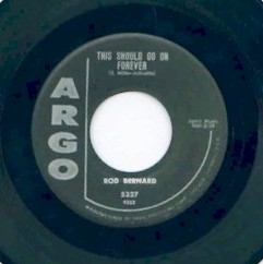 Photo of 45 RPM single of Rod Bernard's "This Should Go On Forever" on the Argo label, 1959.